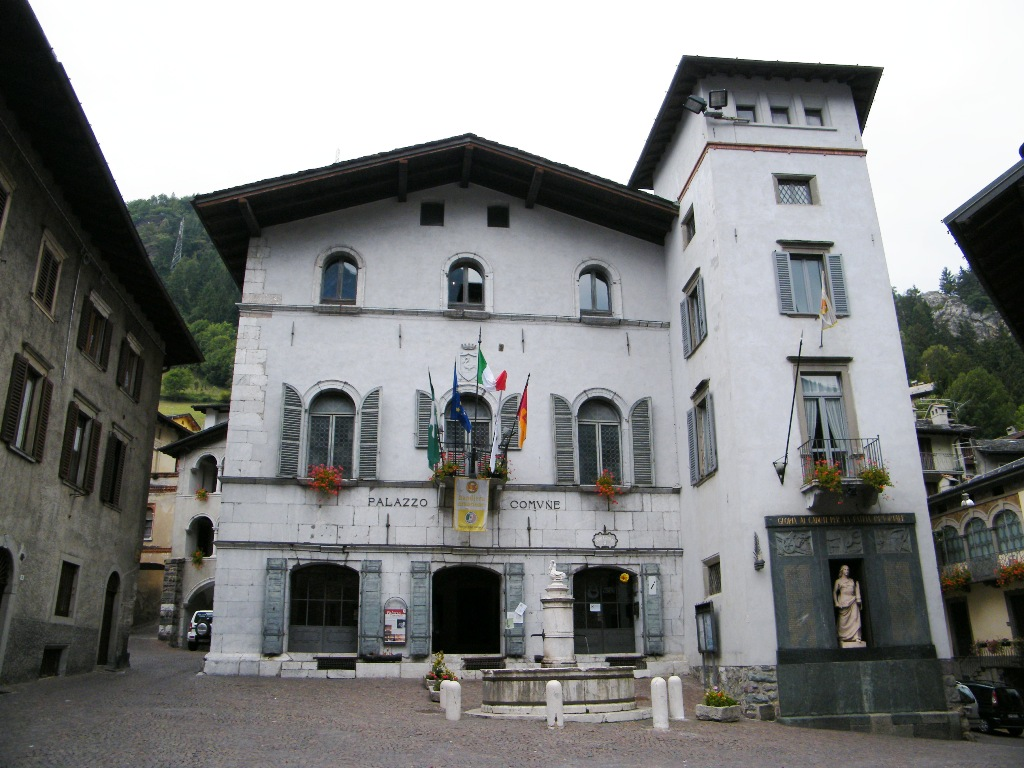 Town Hall. Gromo